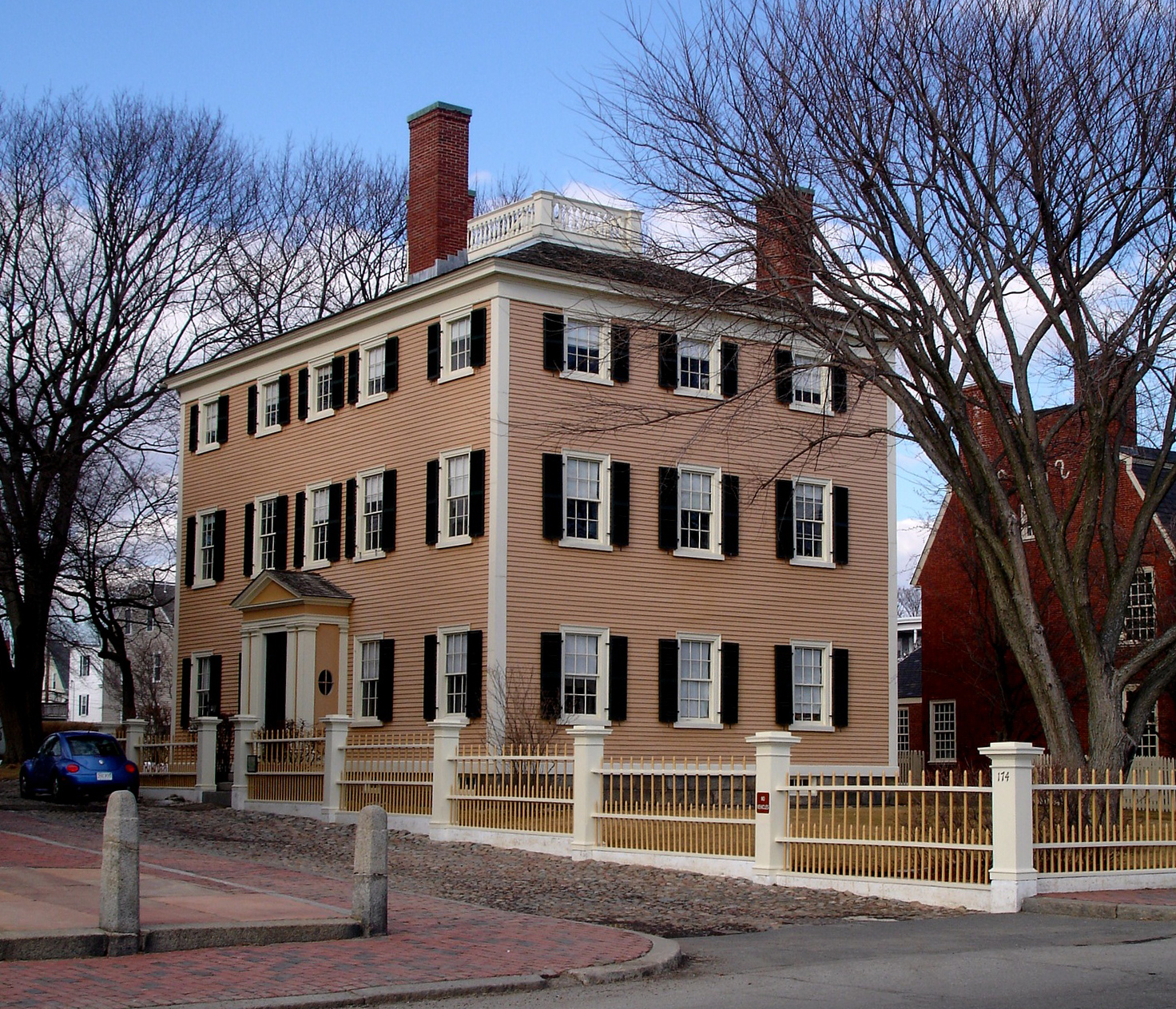 Hawkes House in the Derby Waterfront Historic District, Salem Marutime National Historic Site, Salem, Massachusetts, USA